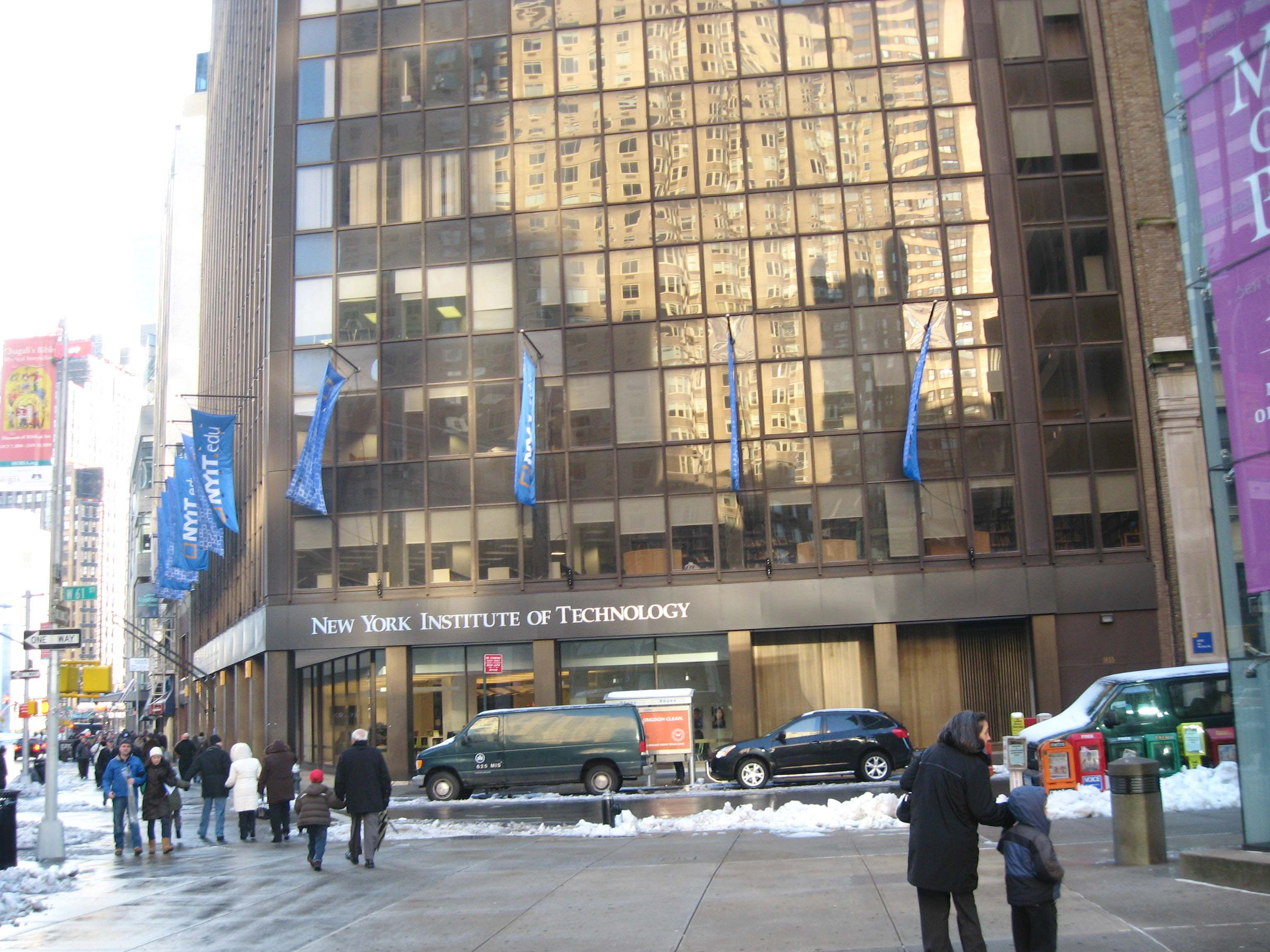 Looking south along Broadway and across 61st Street at New York Institute of Technology on a cloudy afternoon. See also File:P2270001.jpg]